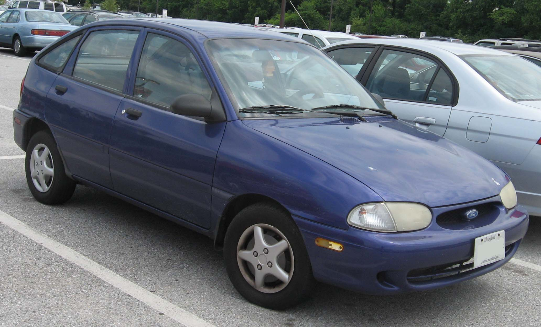 Ford Aspire photographed in USA.